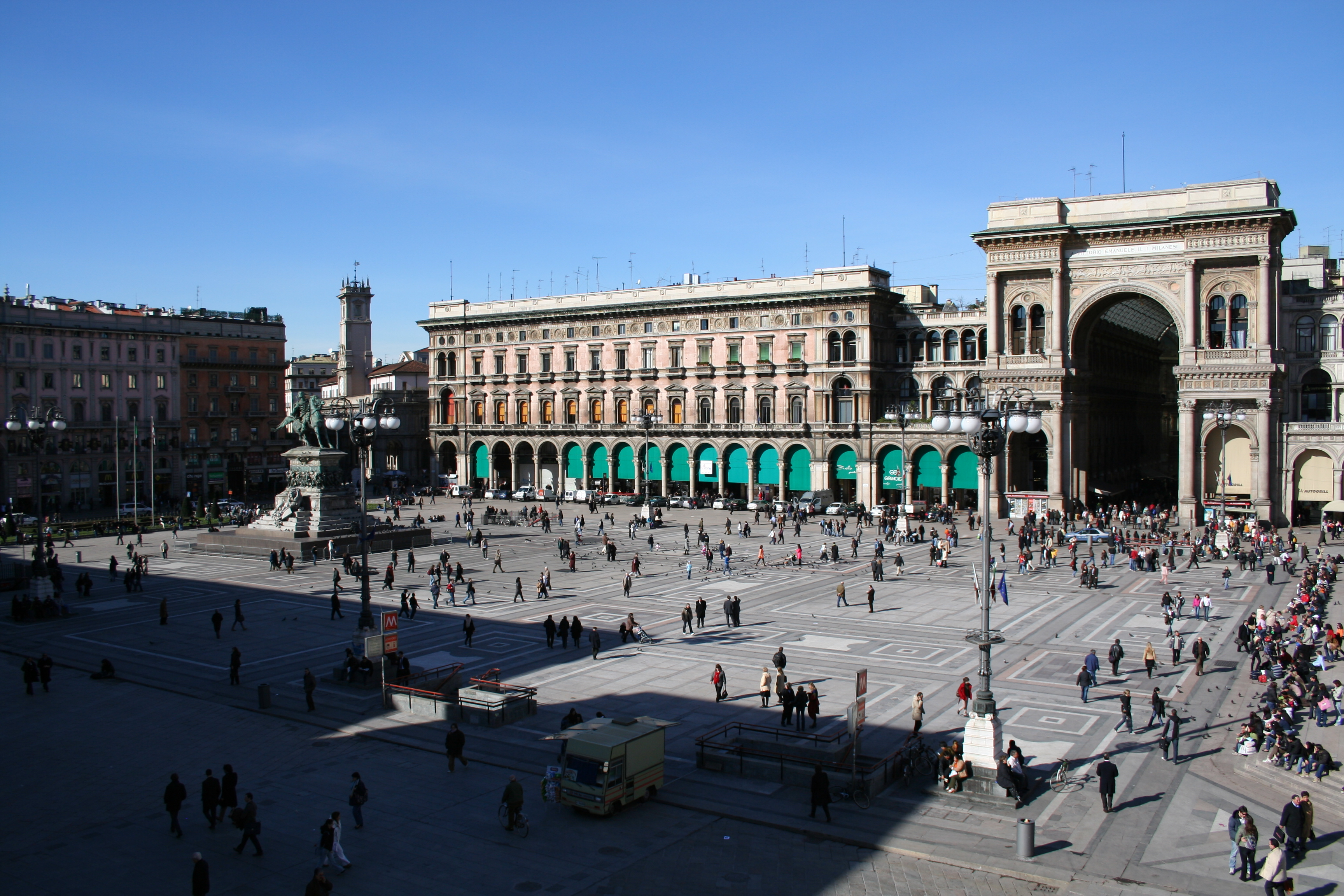 A photograph taken of the Piazza del Duomo in Milan.